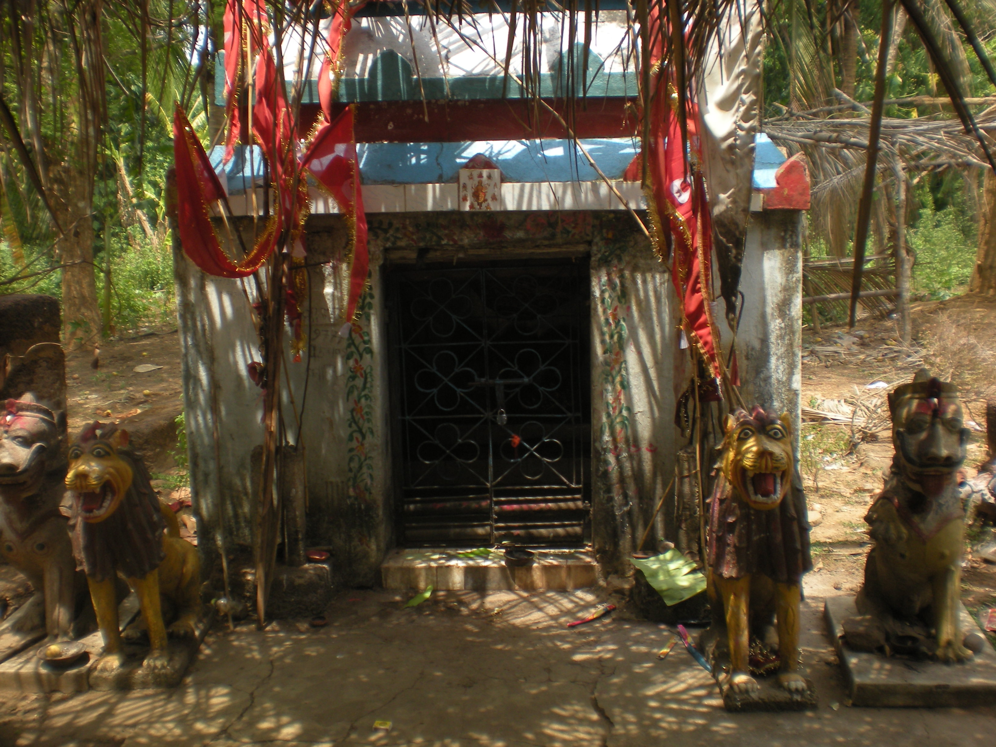 Maa Khilamunda temple is widely popular in Mala tracks of Ranpur. The people of adjoining villages are very much devoted to this Goddess till date. Moreover, the princely family of Ranpur, Ex-State was care taker of this holy shrine.